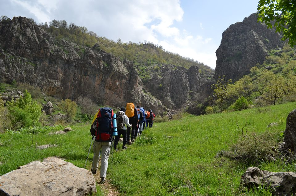 Kurdistan Mountain Climbing in Sardav Canyon in Pendro village. Kurdî: فیدراسونی شاخەوانی کوردستان لە گەلی سارداڤ لە گوندی پێندرو